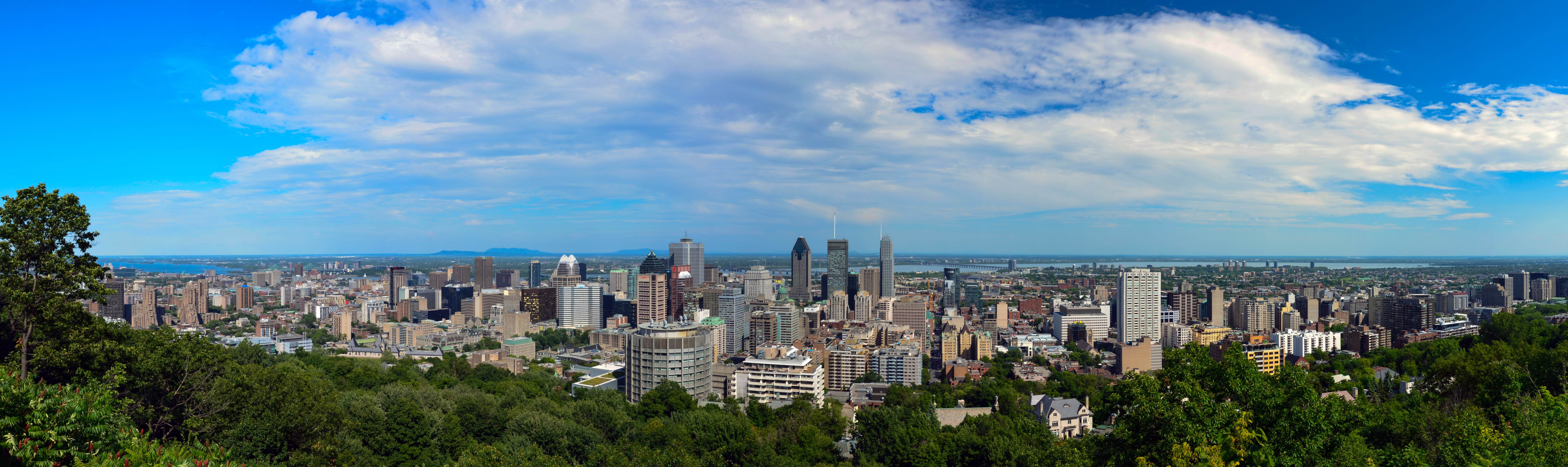 Montreal (Canada) viewed from the hill of Mount Royal